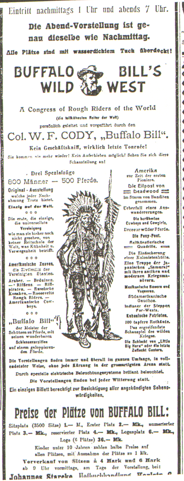 Adversiments for the Final Buffalo Bill Show in Eisenach.